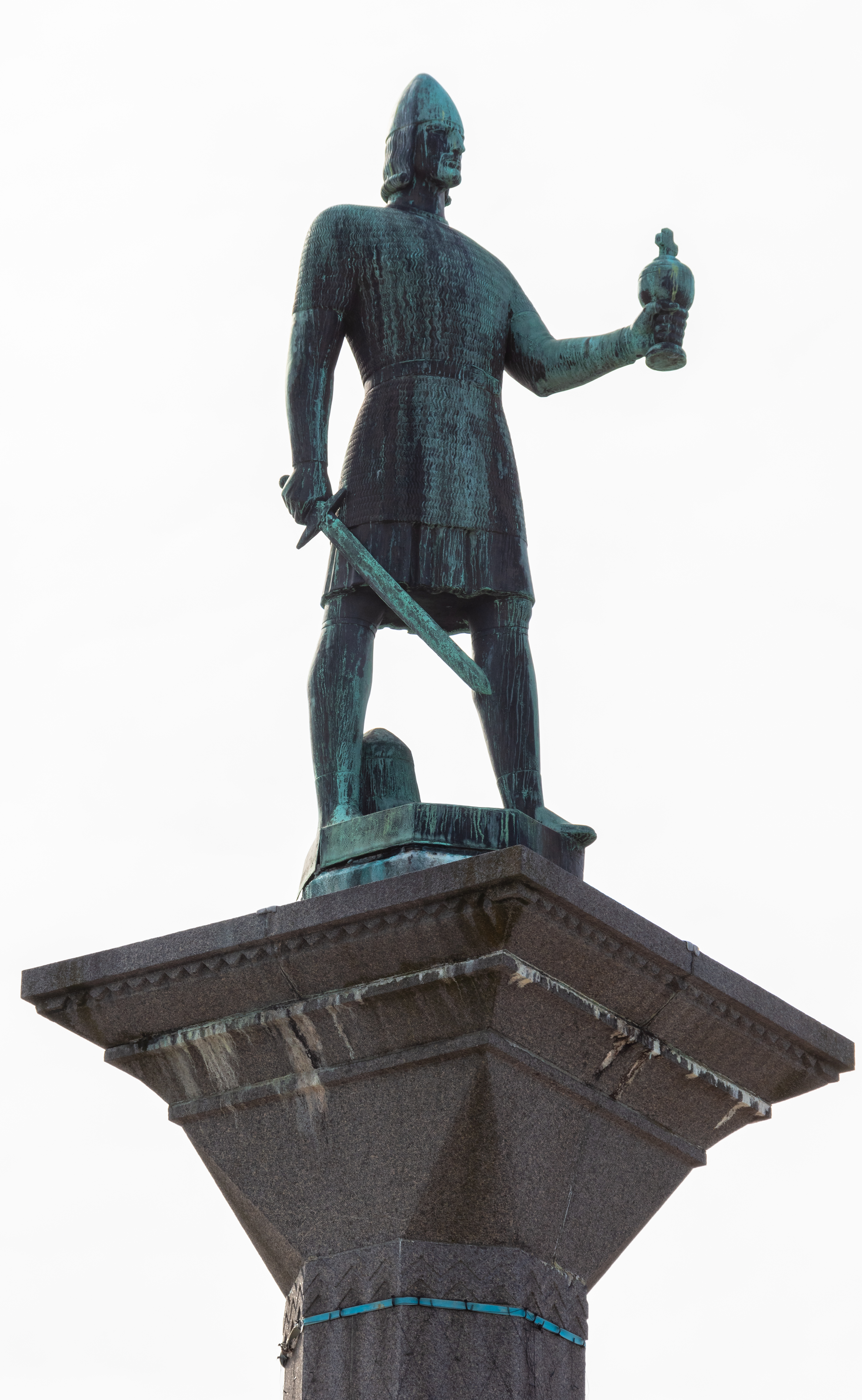 Olav Tryggvason monument, Trondheim, Norway